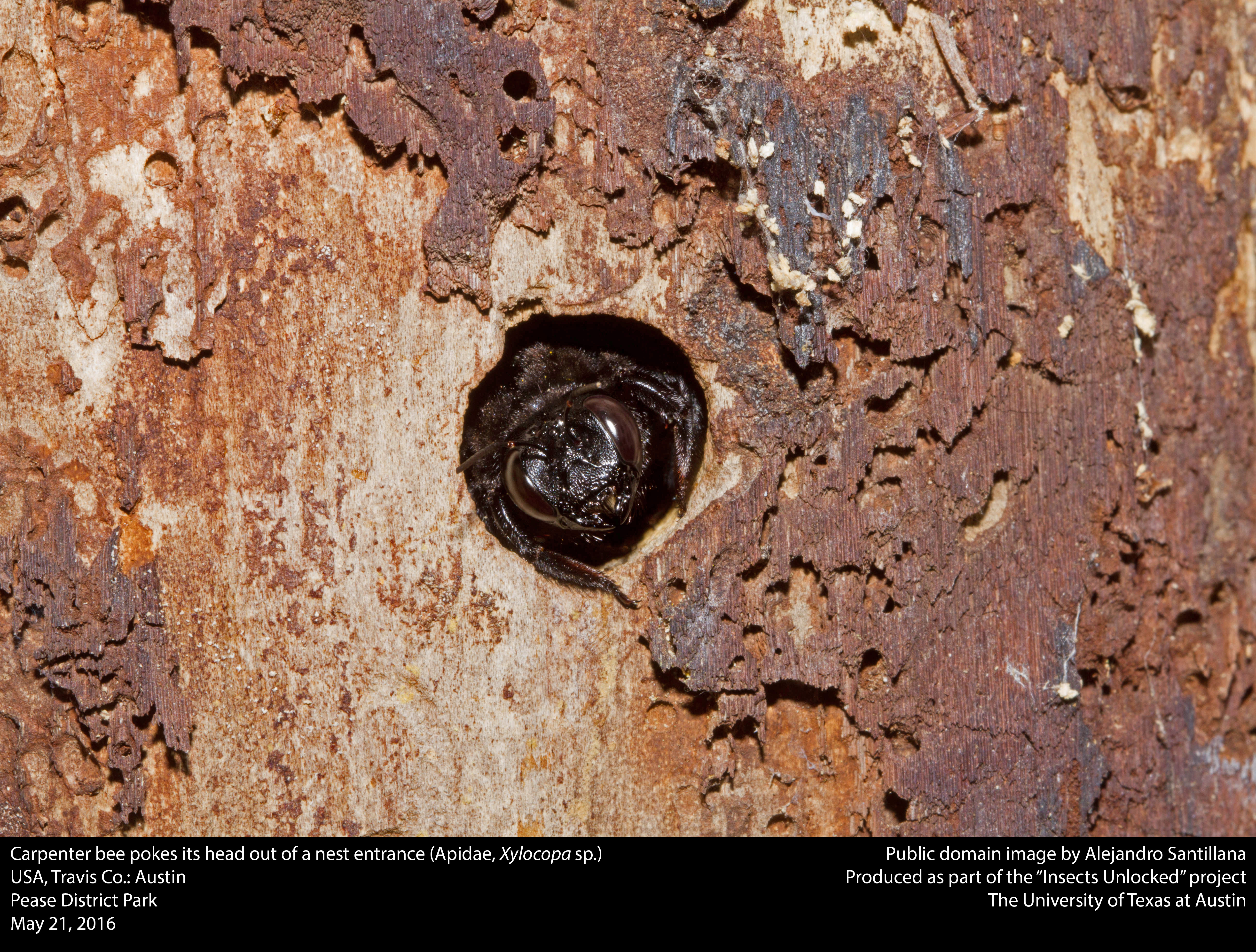 USA, TX, Travis Co.: Austin Pease District Park 21-v-2016